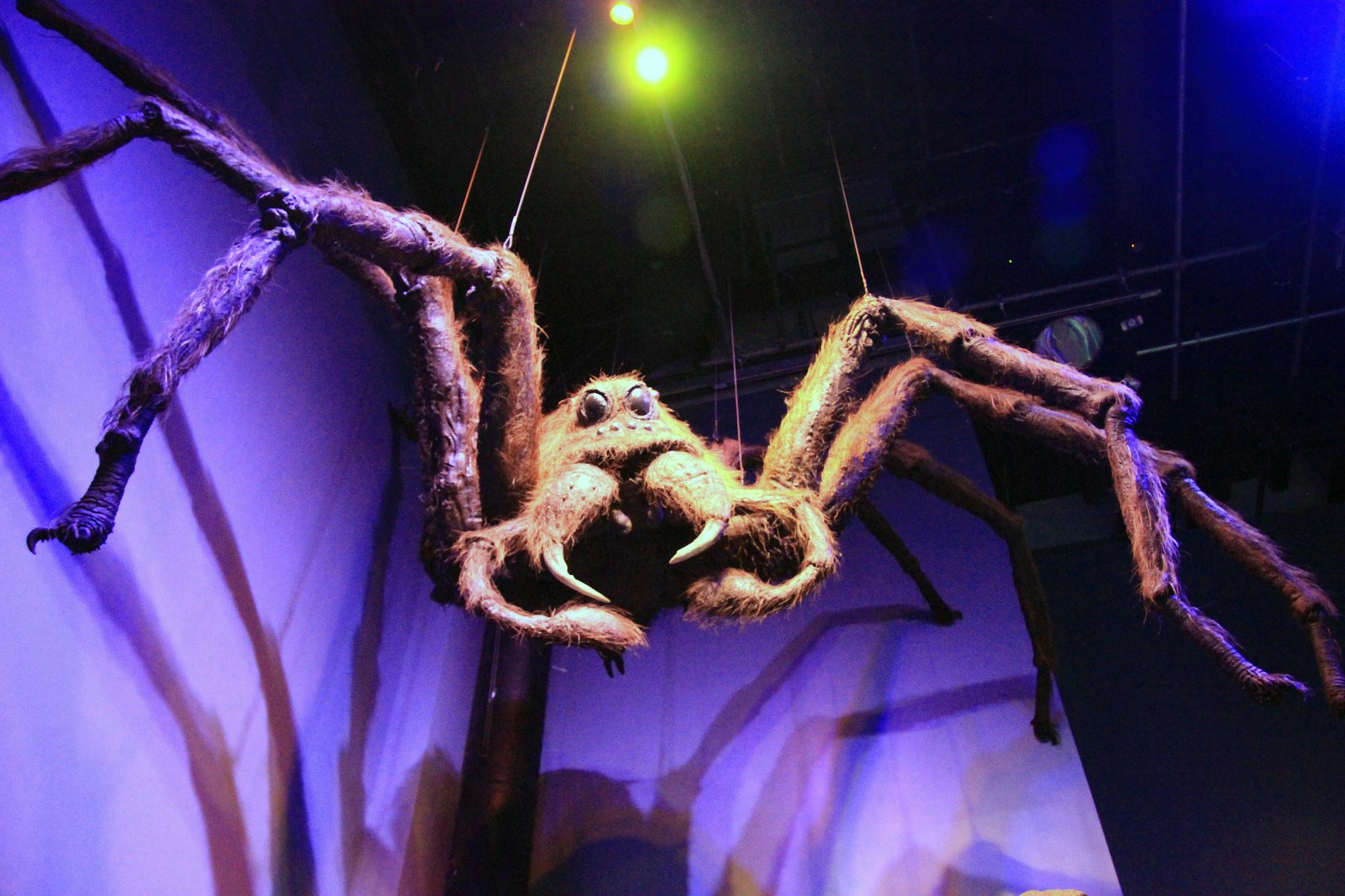 Warner Bros. Studio Tour London: The Making of Harry Potter.